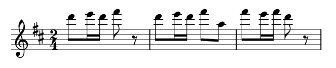 Transcription of phrase of song of Common Blackbird (Turdus merula), recorded 1914-05-16 in Essen (Germany) at Stadtwald by Heinz Tiessen, noted on octave lower than real